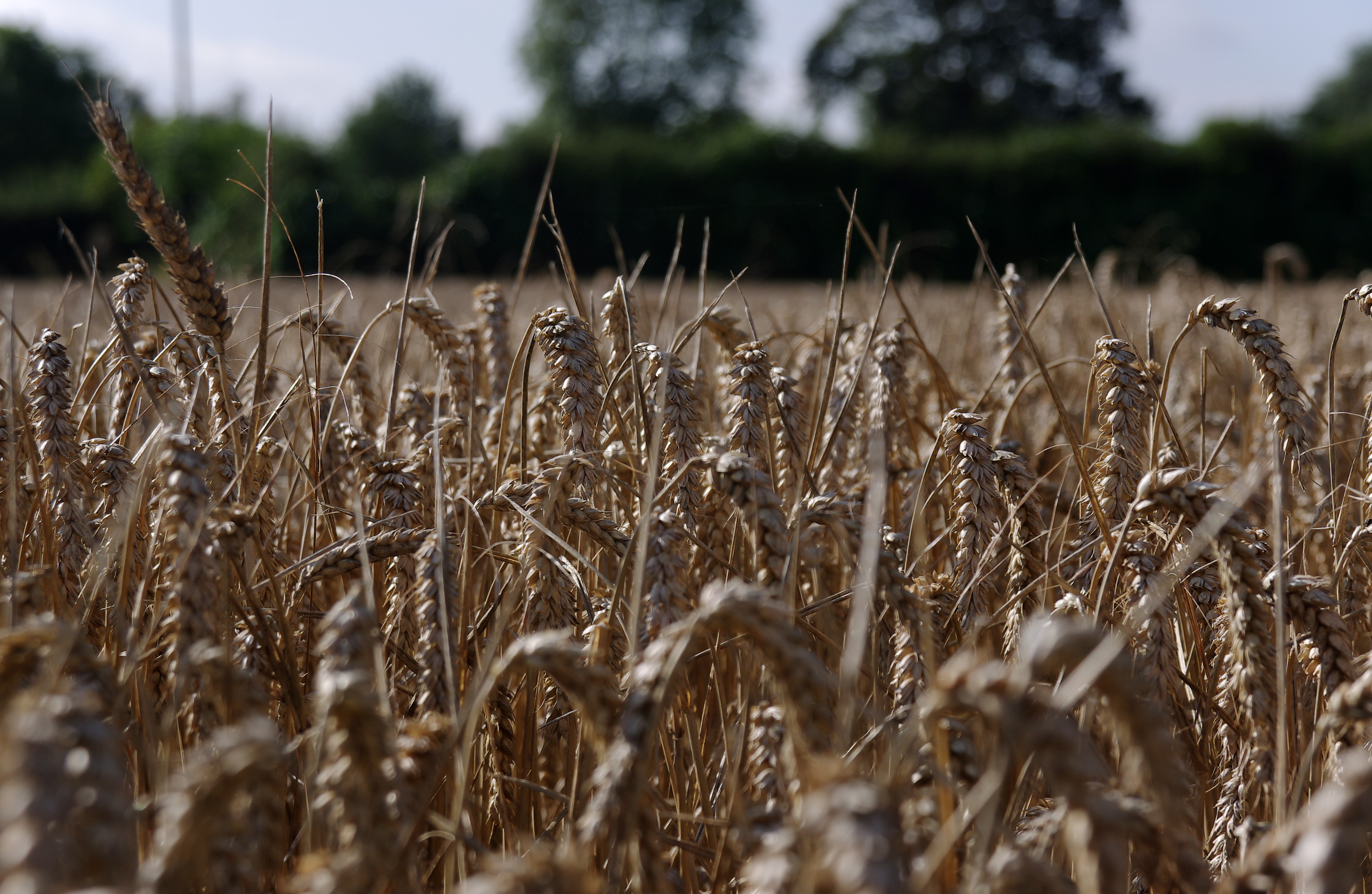 A field of grain in South Otterington, Yorkshire. By the time we left, this would all be haybales.